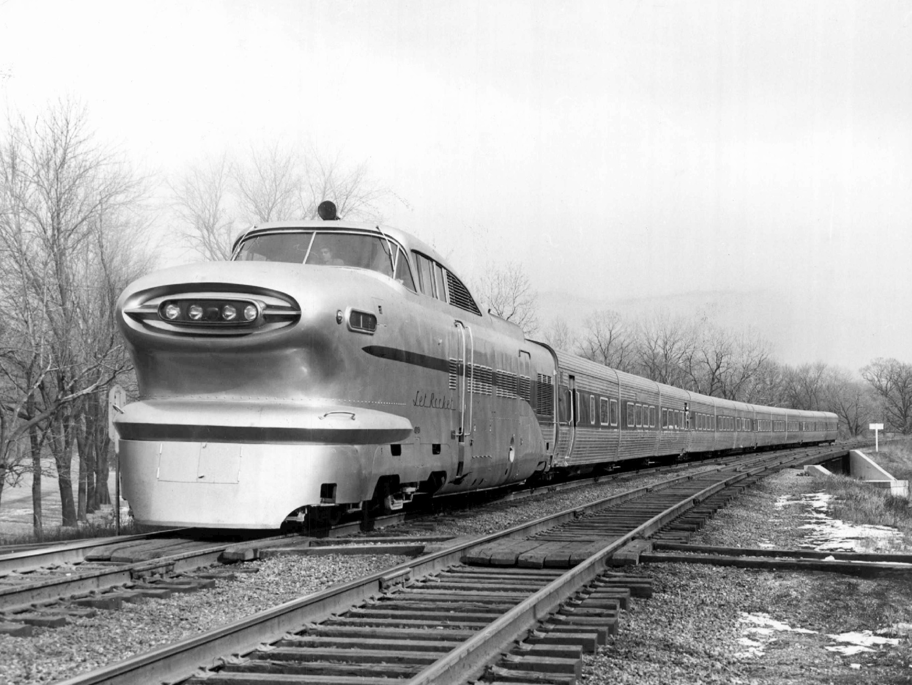 Postcard photo of the Jet Rocket train of the Chicago, Rock Island and Pacific Railroad. The Jet Rocket served between Chicago and Peoria, Illinois for a time in the mid 1950s.